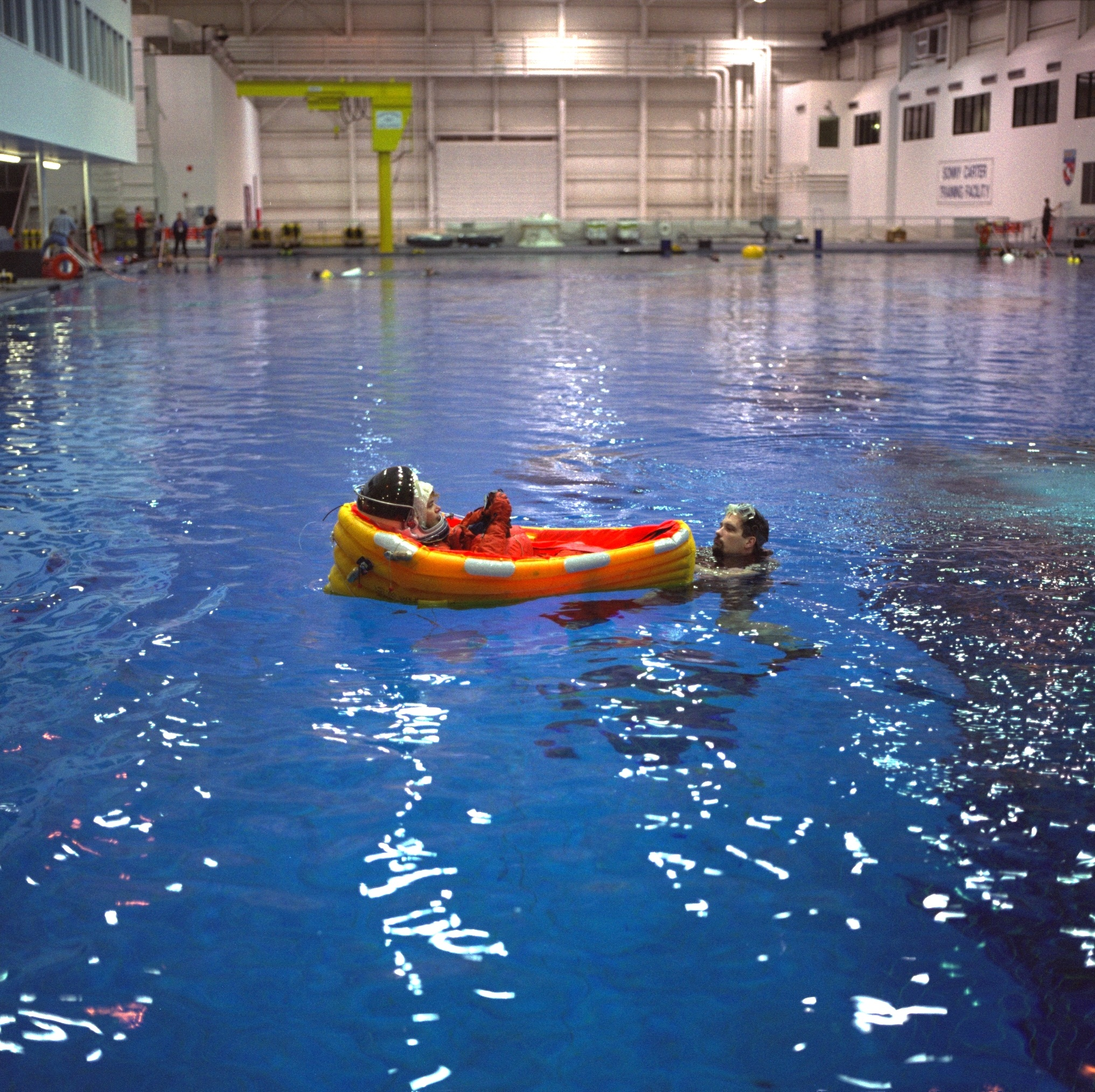 Astronaut Julie Payette is assisted by a SCUBA-equipped diver during emergency bailout training. The STS-96 mission specialist, who represents the Canadian Space Agency (CSA), was joined by five NASA astronauts for the training session in the Johnson Space Center's Neutral Buoyancy Laboratory (NBL). Those six will be joined by a Russian cosmonaut aboard the Space Shuttle Discovery for the STS-96 mission later this year.